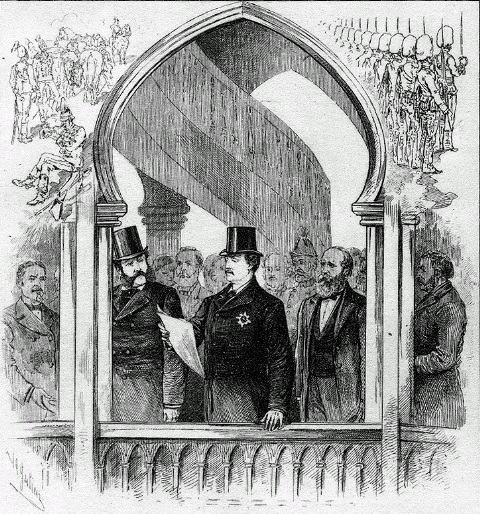 Official Inauguration of the Dominion Exhibition by His Excellency the Governor-General, The Marquess of Lorne, in Montreal, Quebec, Canada.